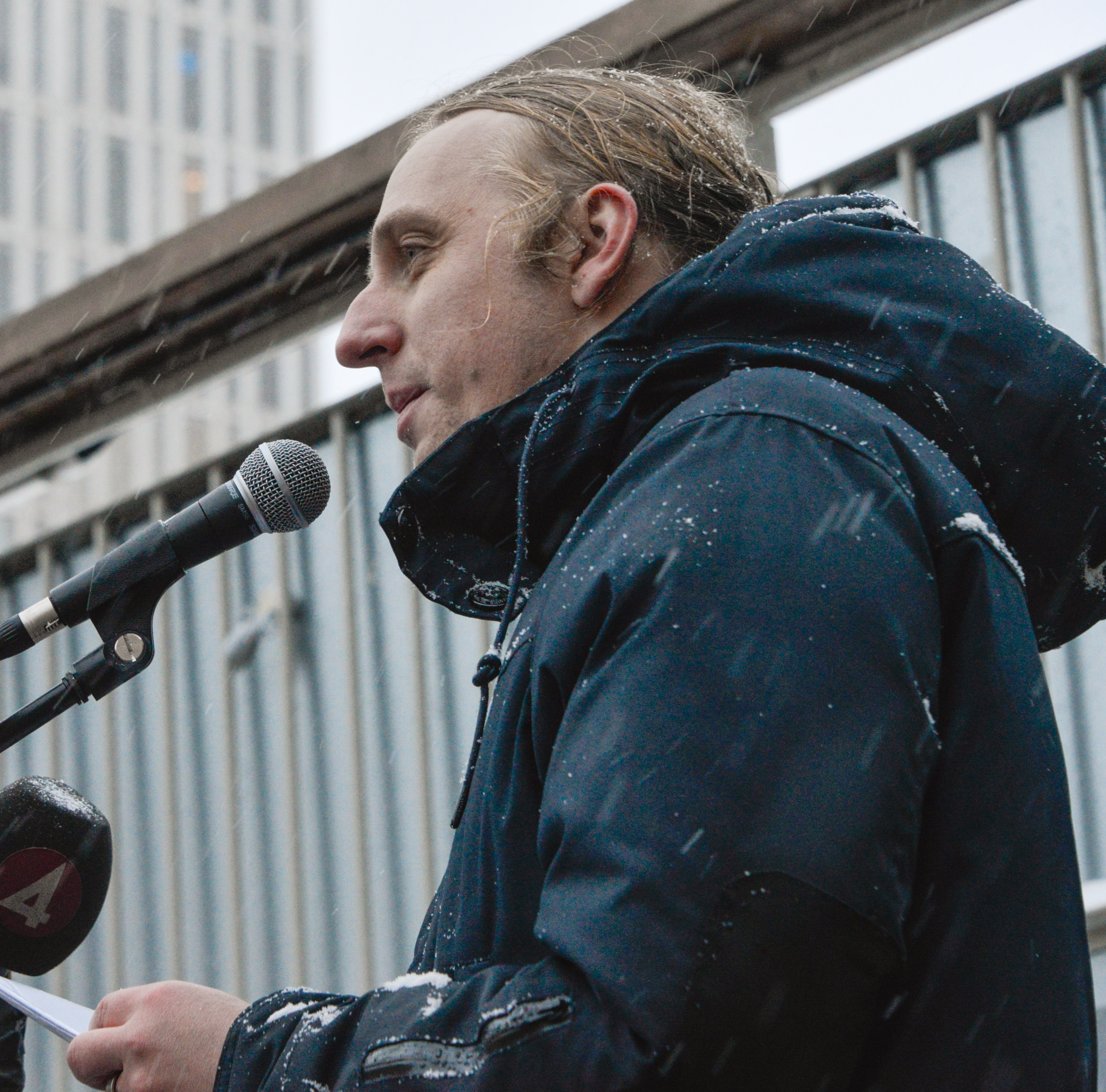 Stockholm rally in support of the victims of the 2015 Charlie Hebdo shooting.